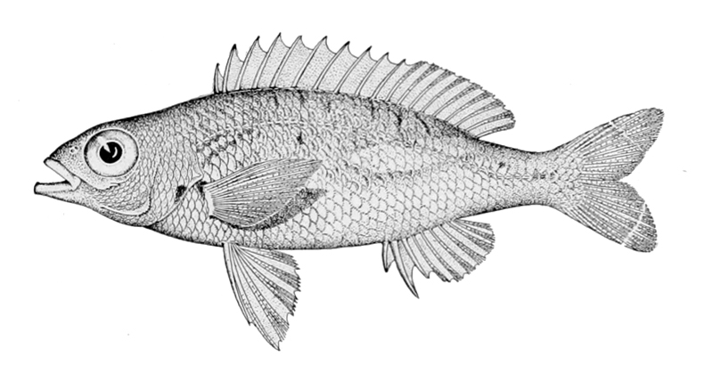 Scolopsis xenochrous